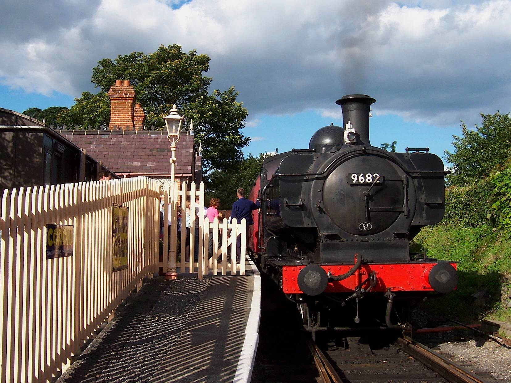 British Railways (Western Region) 0-6-0PT Class 57xx No. 9682 at Chinnor station on Saturday 21ST August 2004, during the Chinnor and Princes Risborough Railway's 10TH Anniversary Reopening Weekend